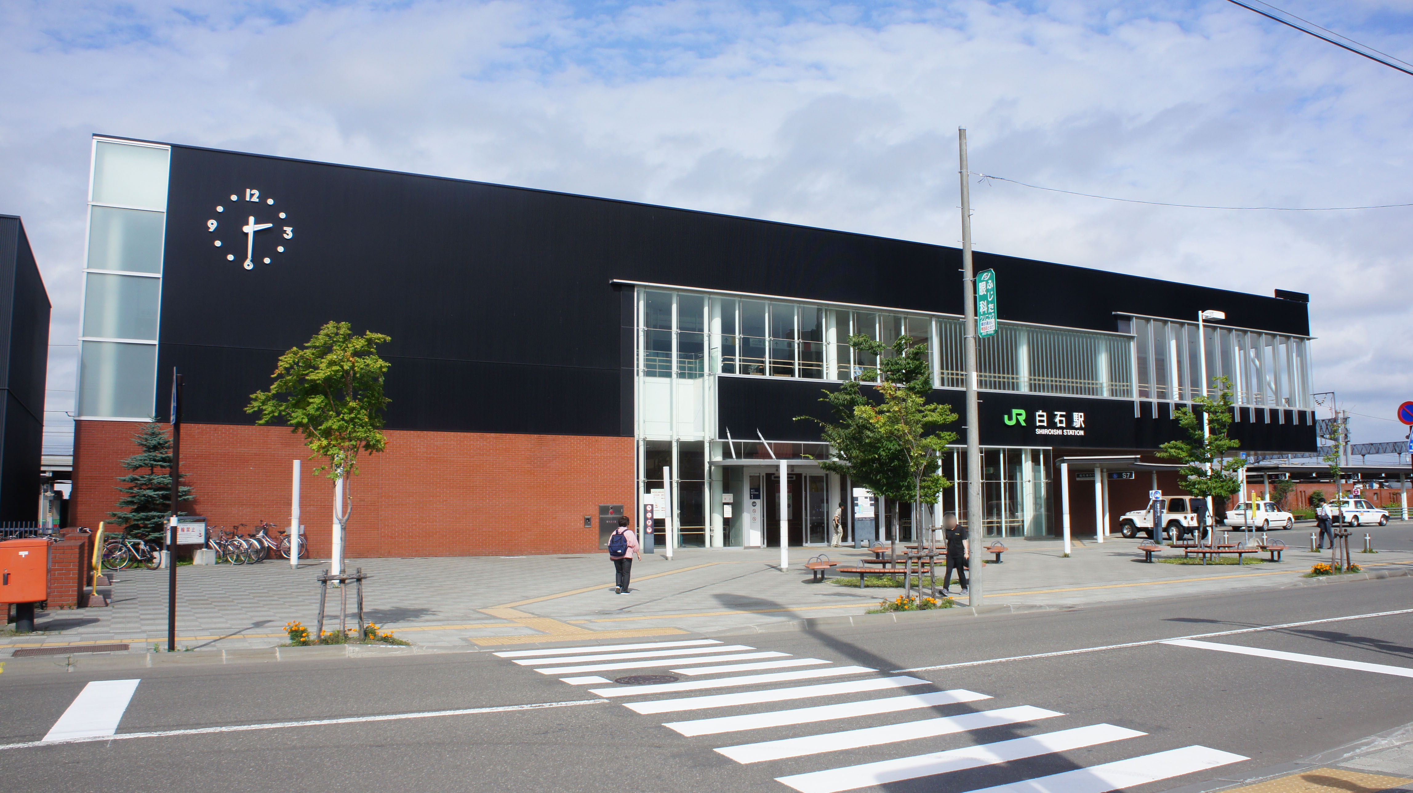 Station building (South Exit) of JR Hakodate-Main-Line/Chitose-Line Shiroishi Station